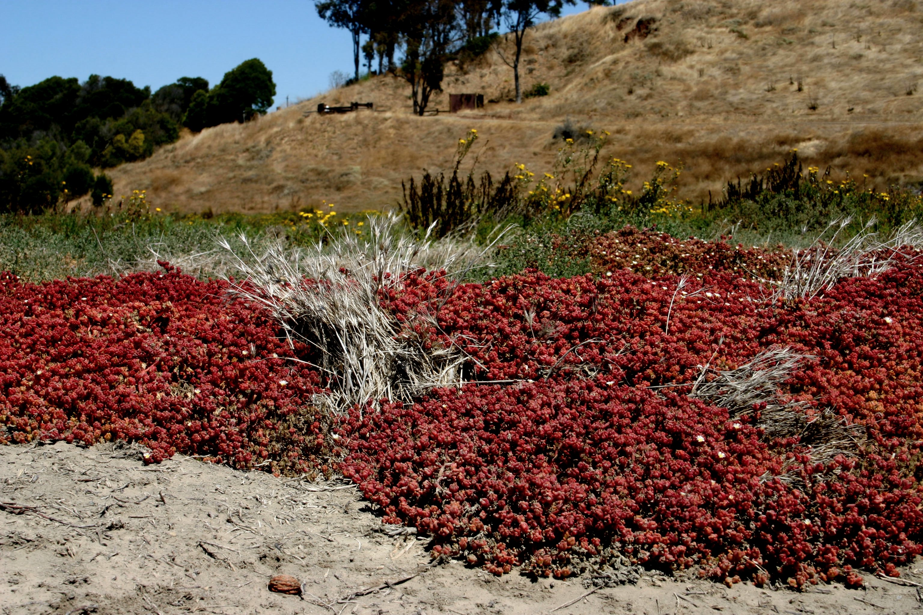 Ecotone at the Don Edwards San Francisco Bay National Wildlife Refuge.